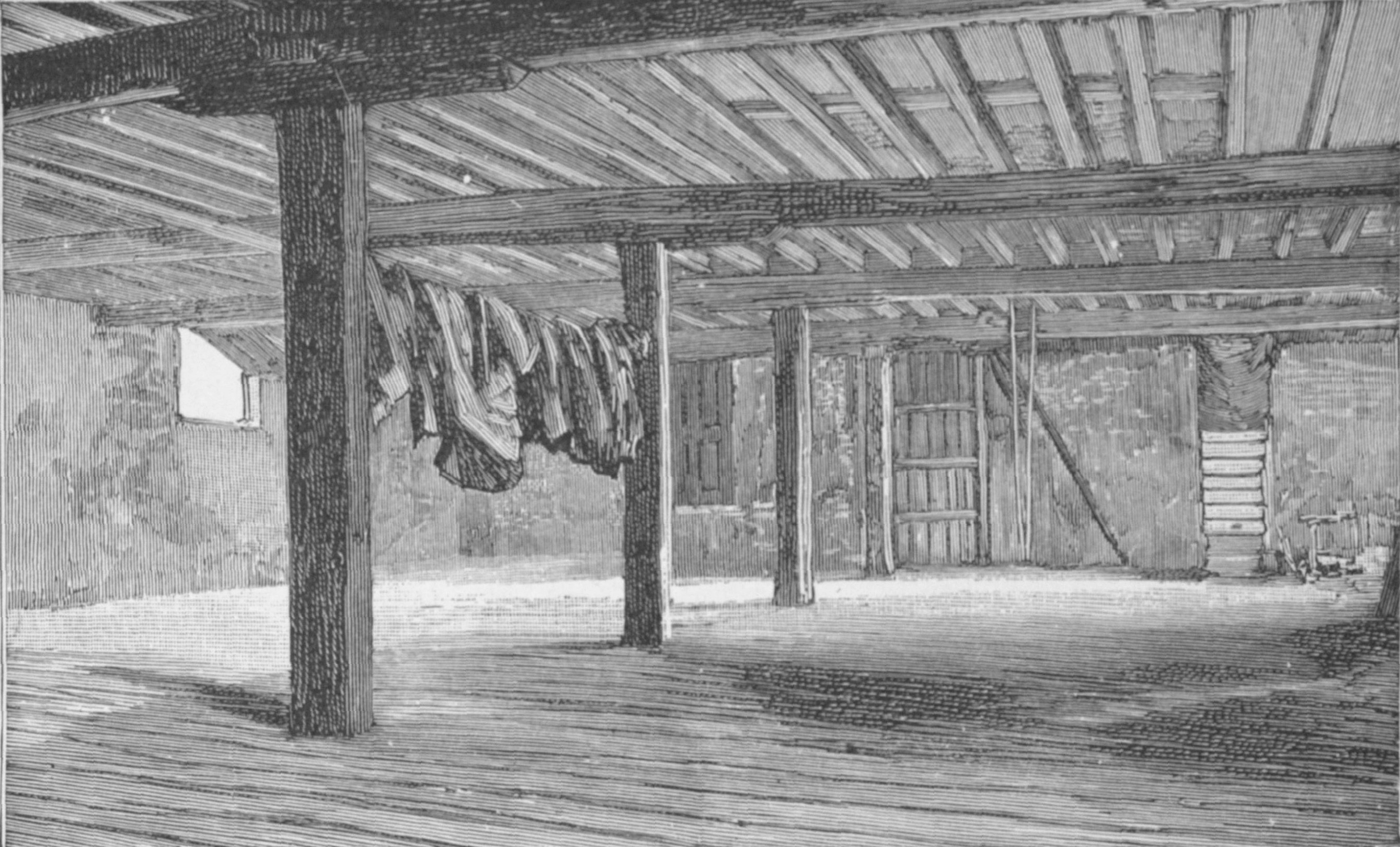 The coach-maker's depot which was proposed by Sir William Augustus Fraser as the forgotten location for the the Duchess of Richmond's ball